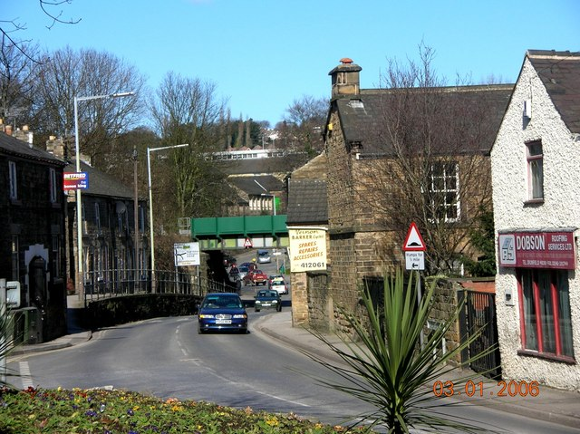 Railway Bridge crossing over Sheffield Road in Dronfield.